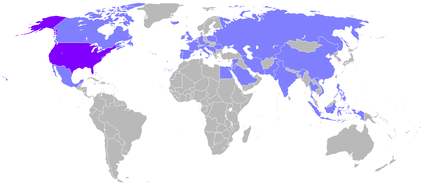 The highlighted countries are those visited by Richard Nixon during his presidency